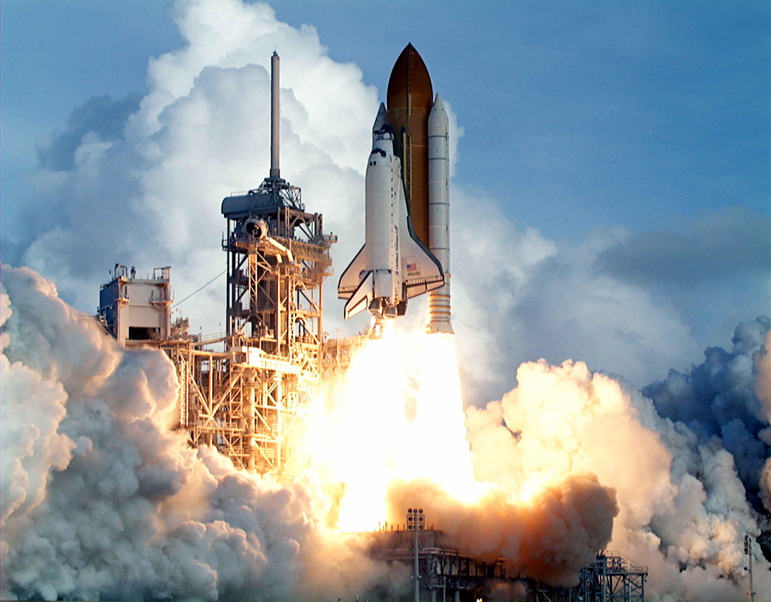 Filling the ground with billows of smoke and steam created by the flaming solid rocket boosters, Space Shuttle Atlantis speeds toward space on mission STS-106. The perfect on-time liftoff occurred at 8:45:47 a.m. EDT. On the 11-day mission to the International Space Station, the seven-member crew will perform support tasks on orbit, transfer supplies and prepare the living quarters in the newly arrived Zvezda Service Module. The first long-duration crew is due to arrive at the Station in late fall. Landing of Atlantis is targeted for 4:45 a.m. EDT on Sept. 19.